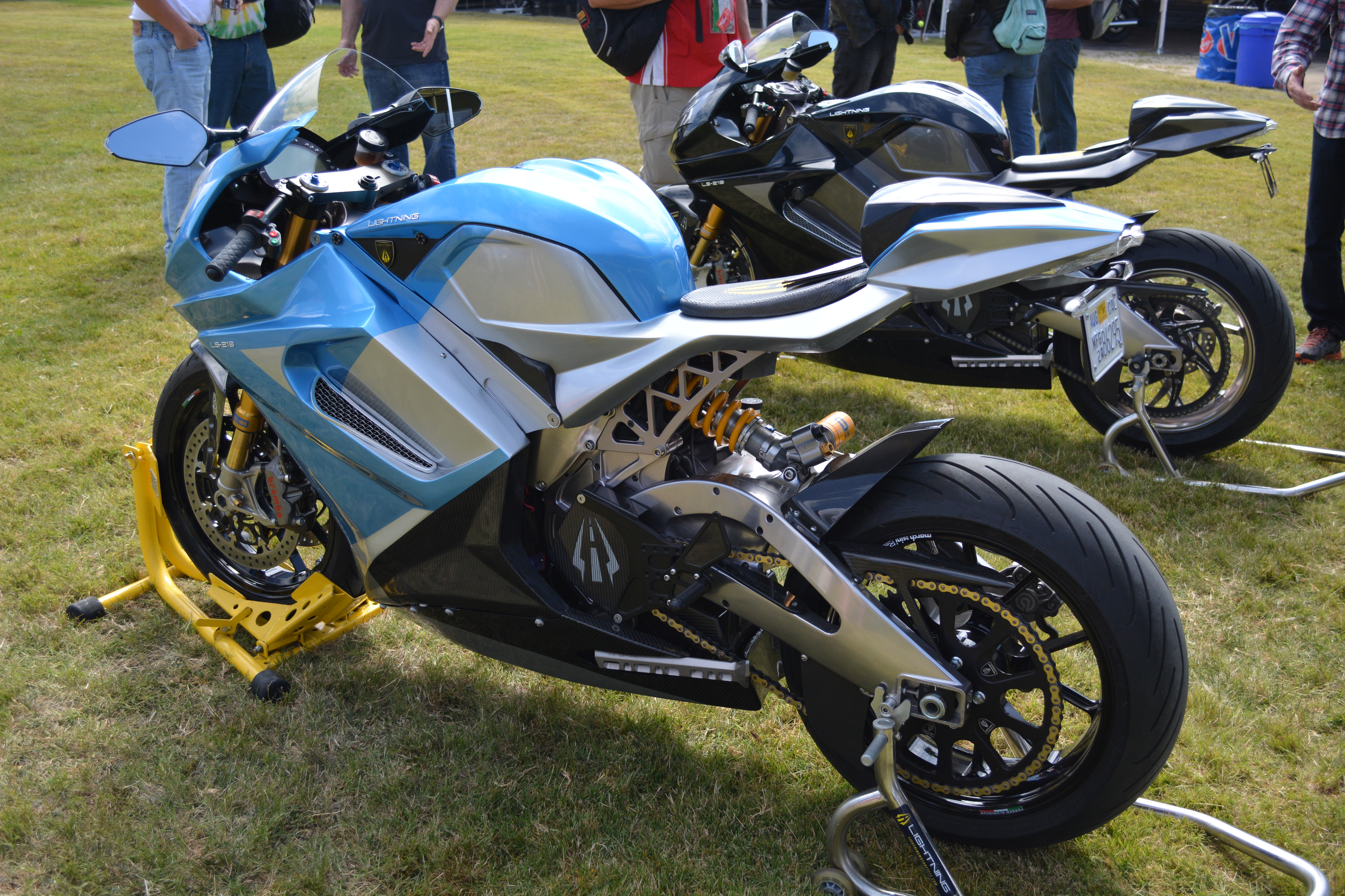 SBK FIM Superbike World Championship 2015 SBK FIM Superbike World Championship 2015